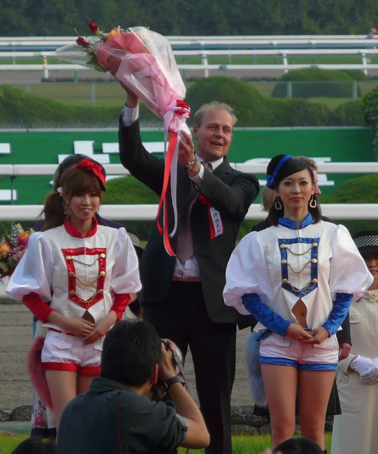 Edward-Dunlop20101114